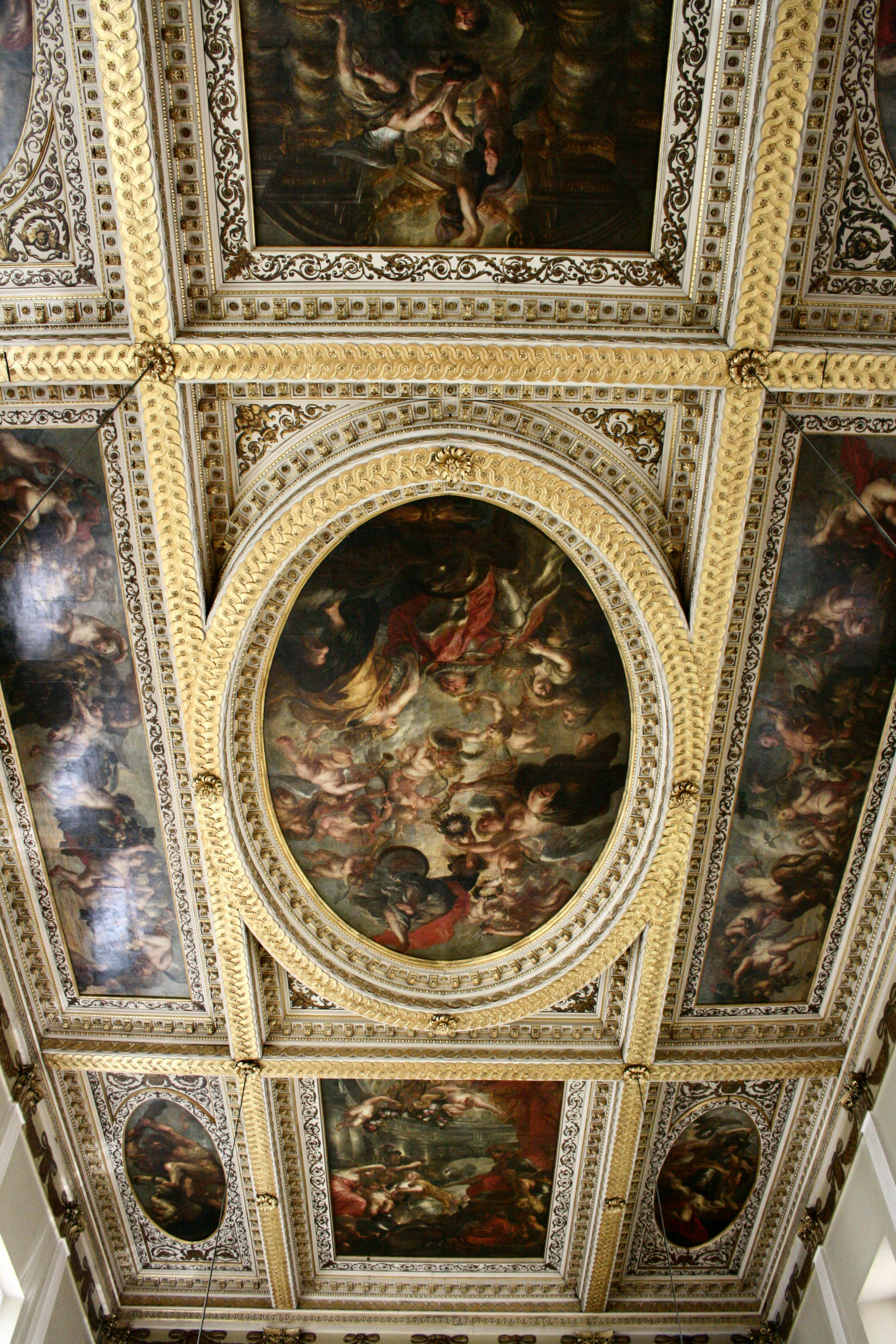 Banqueting House, Whitehall, London. Rubens's painted ceiling. View from the throne